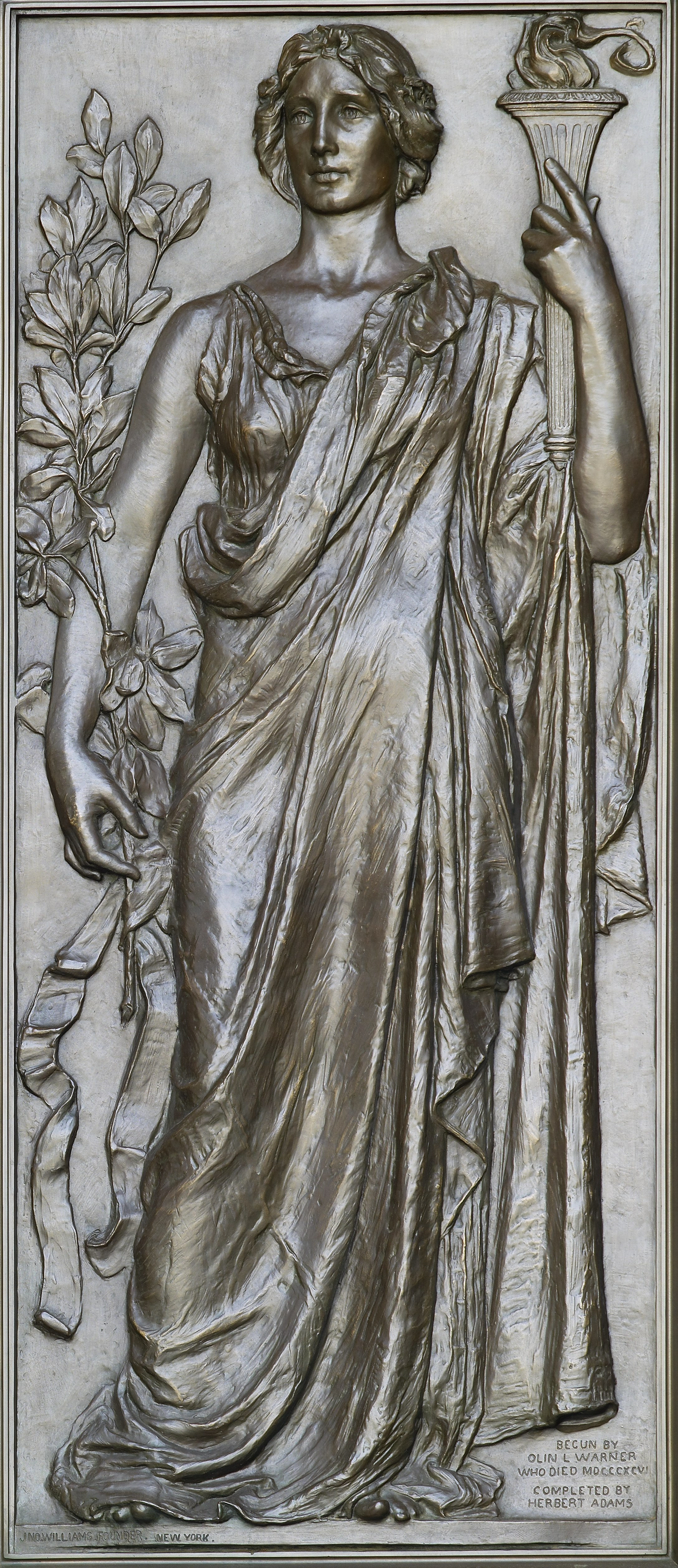 Research. Olin Warner (completed by Herbert Adams), 1896. Right bronze door at main entrance of the Library of Congress Thomas Jefferson Building.